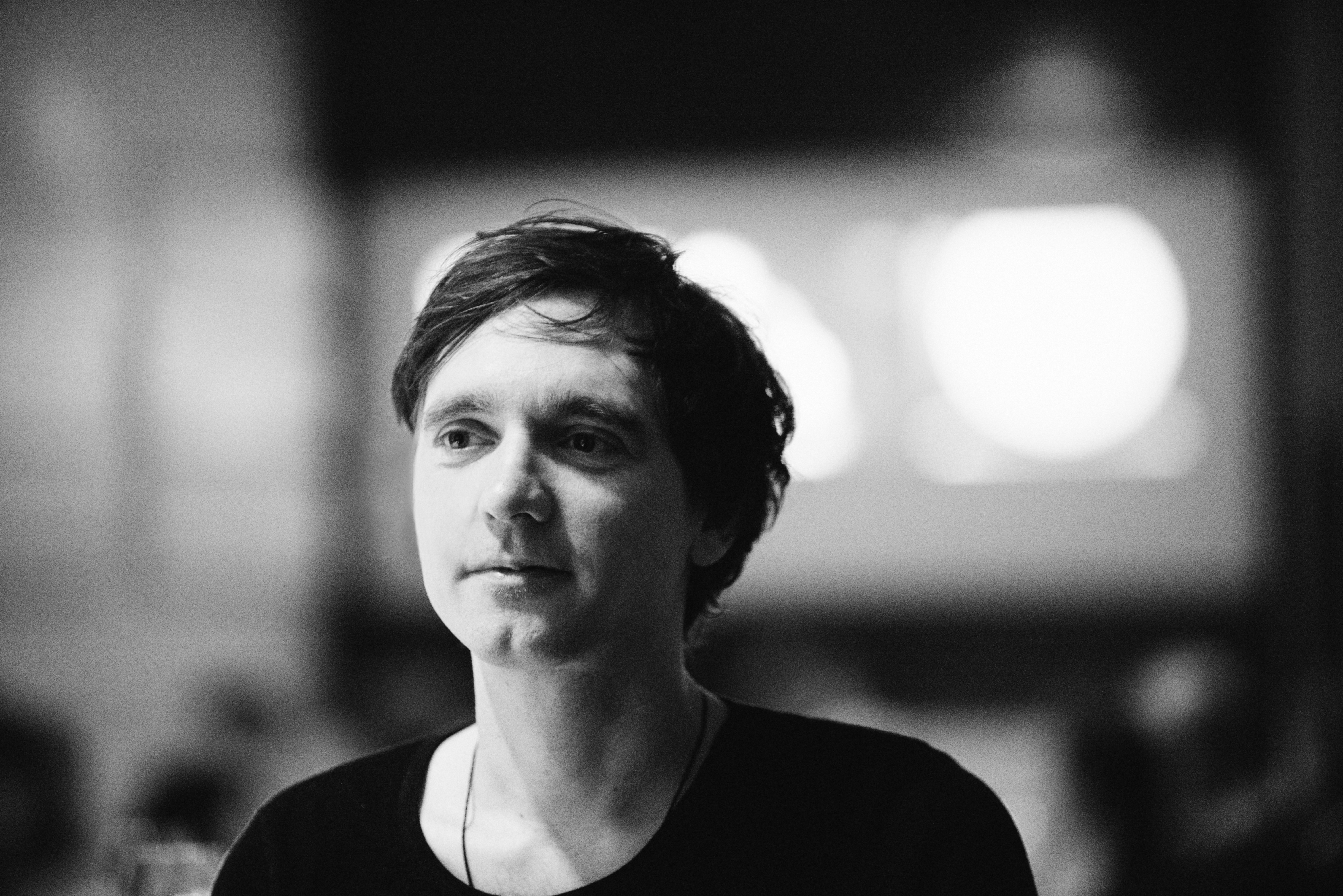 Official press photo of Peter Van Hoesen